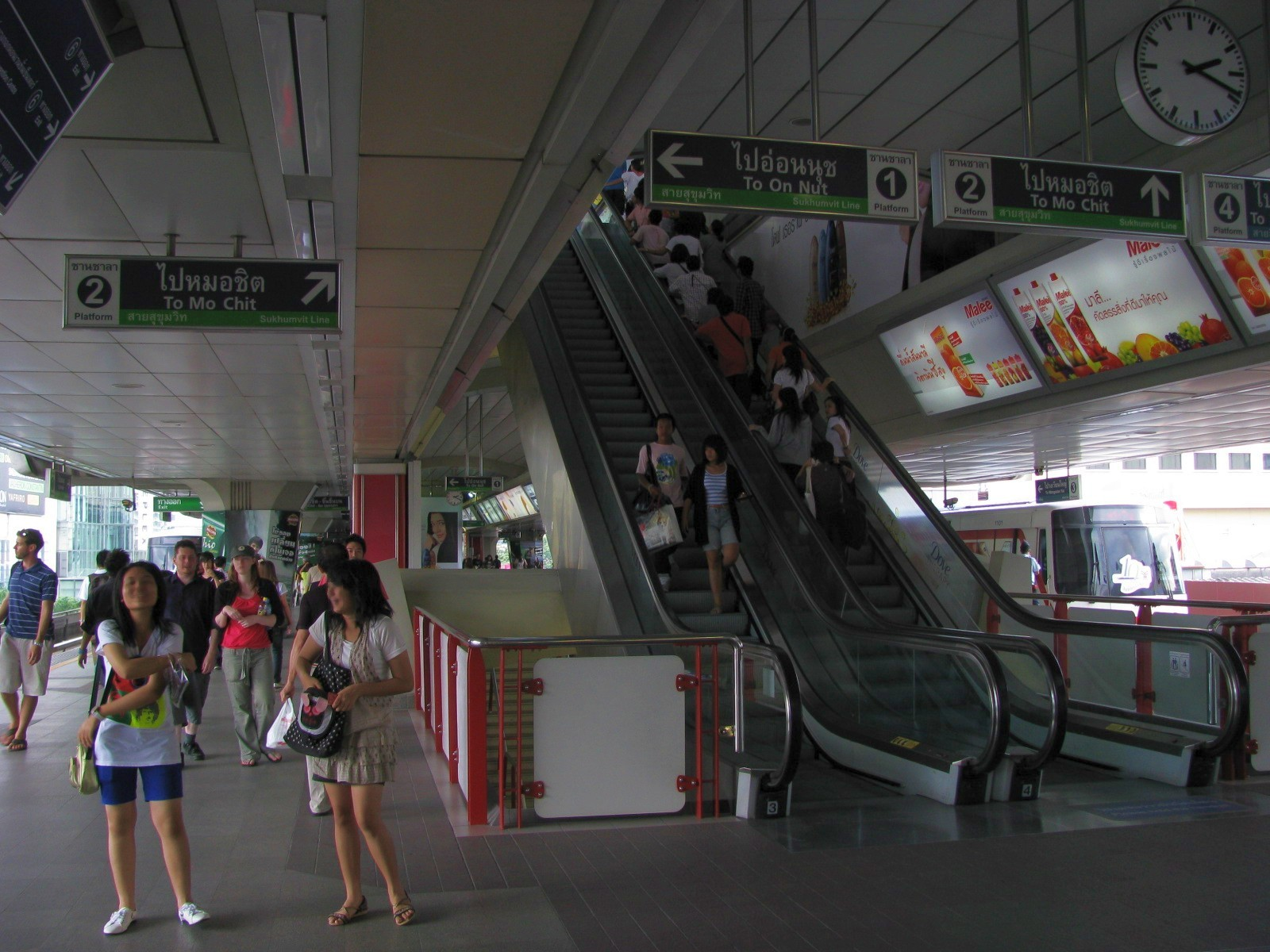 The Siam Station is a BTS Skytrain Station, located in Pathum Wan, Bangkok, Thailand.